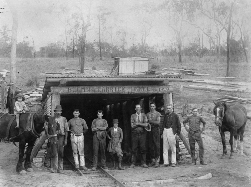 Miners outside the Garrick Tunnel, Bowen Consolidated Coal Mines, ca. 1920